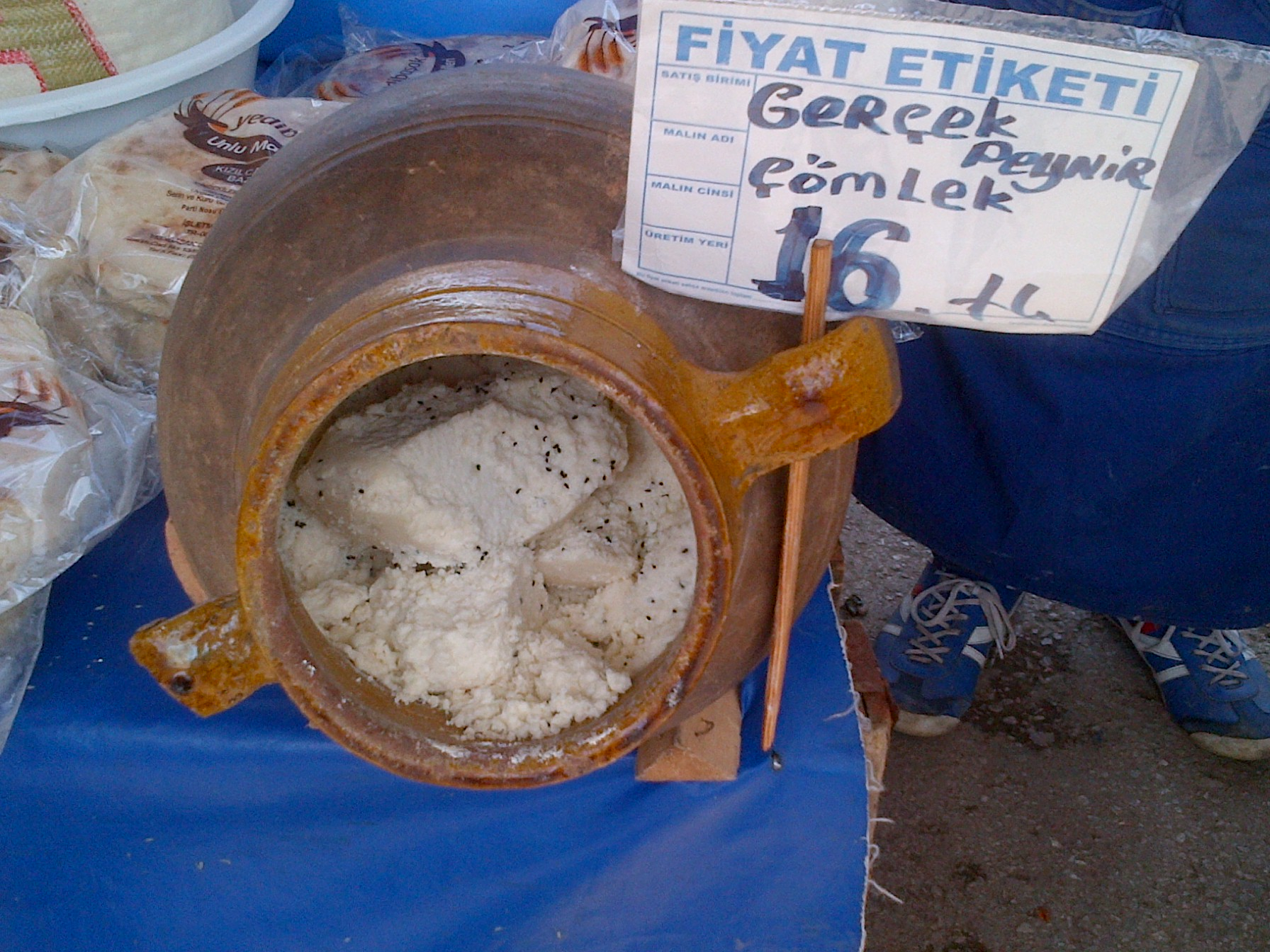 Çömlek peyniri or pot cheese is a Turkish cheese from the Central Anatolia Region made in earthenware pots and kept in natural caves.